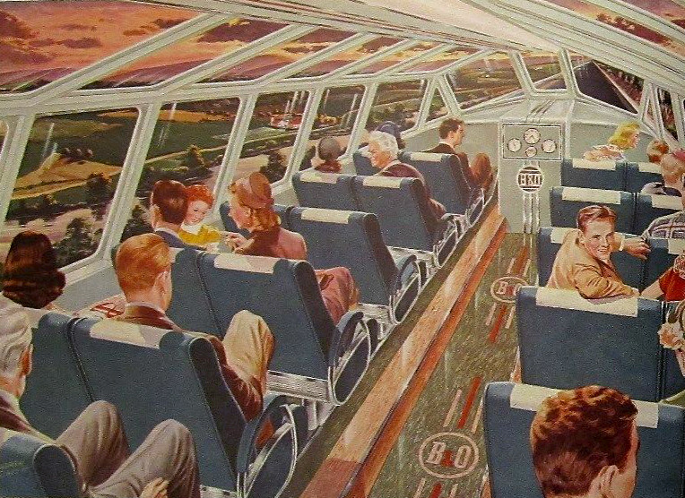 Postcard depiction of the Strata Dome cars used on the Balitmore and Ohio railroad's train "The Columbian". These were at one time the only dome coach cars on the rails in the eastern US.